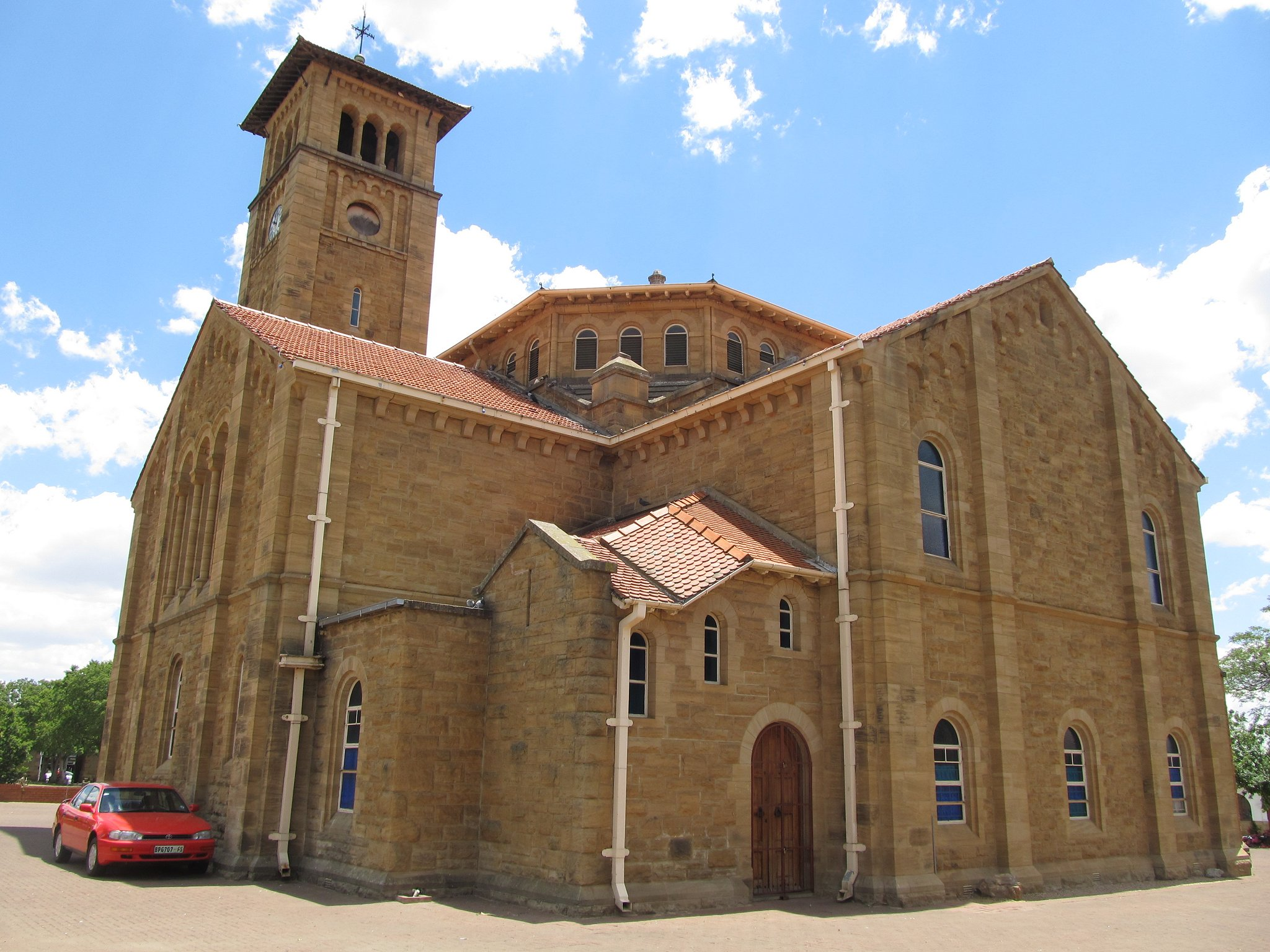 Nederduitse Gereformeerde Mother Church, Church Square, Bethlehem This media shows a South African Protected Site with SAHRA file reference 9/2/300/0009.